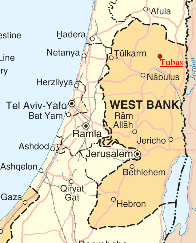 The location of Tubas in the West Bank, with major Israeli and Palestinian shown to show Bethlehem's relative location in the region.